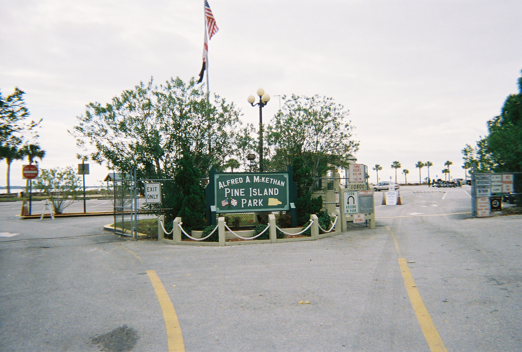 Entrance gate to the Alfred A. McKethan Pine Island Park, in Pine Island, Hernando County, Florida